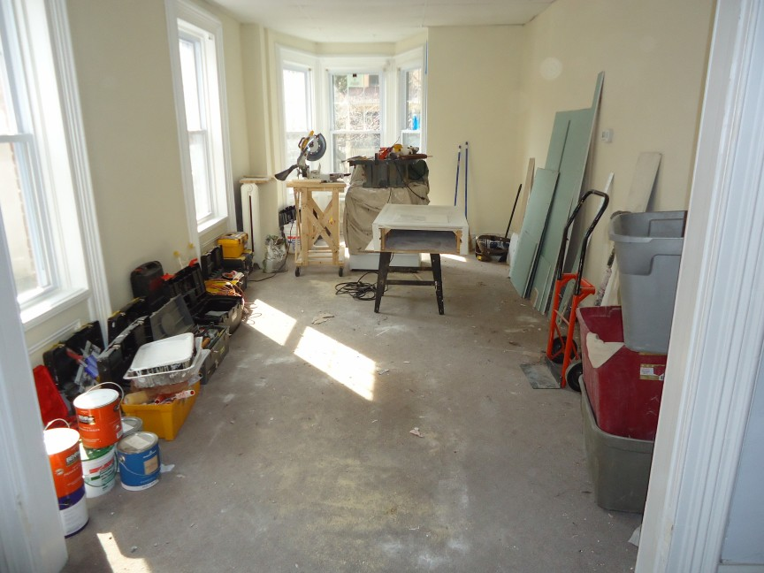 During a kitchen renovation, I used this living room as a base of operations, with tools in boxes along the sides of the walls, and a center area where I could cut moldings, build a box, or do other projects. But tools here meant the kitchen was free for work to be done.